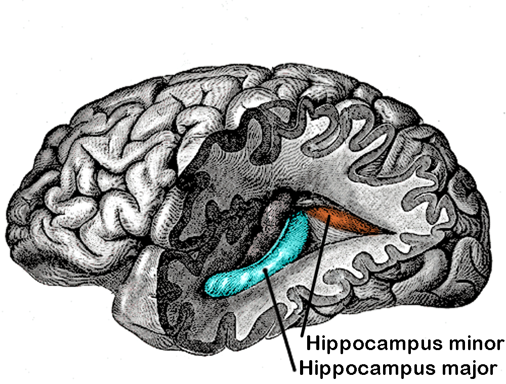 Posterior and inferior cornua of left lateral ventricle exposed from the side